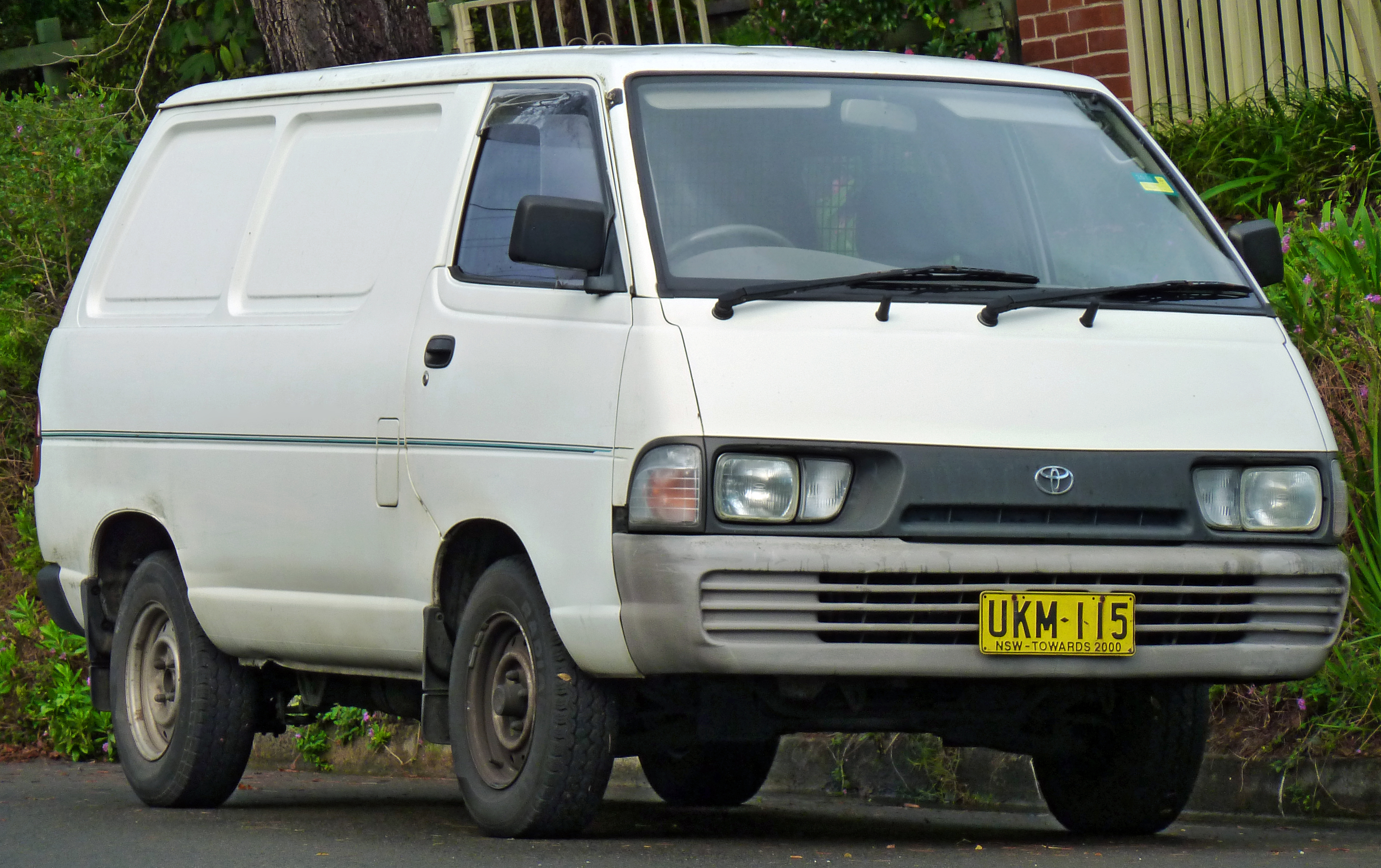 1996 Toyota TownAce (YR39RV) van. Photographed in Lindfield, New South Wales, Australia.